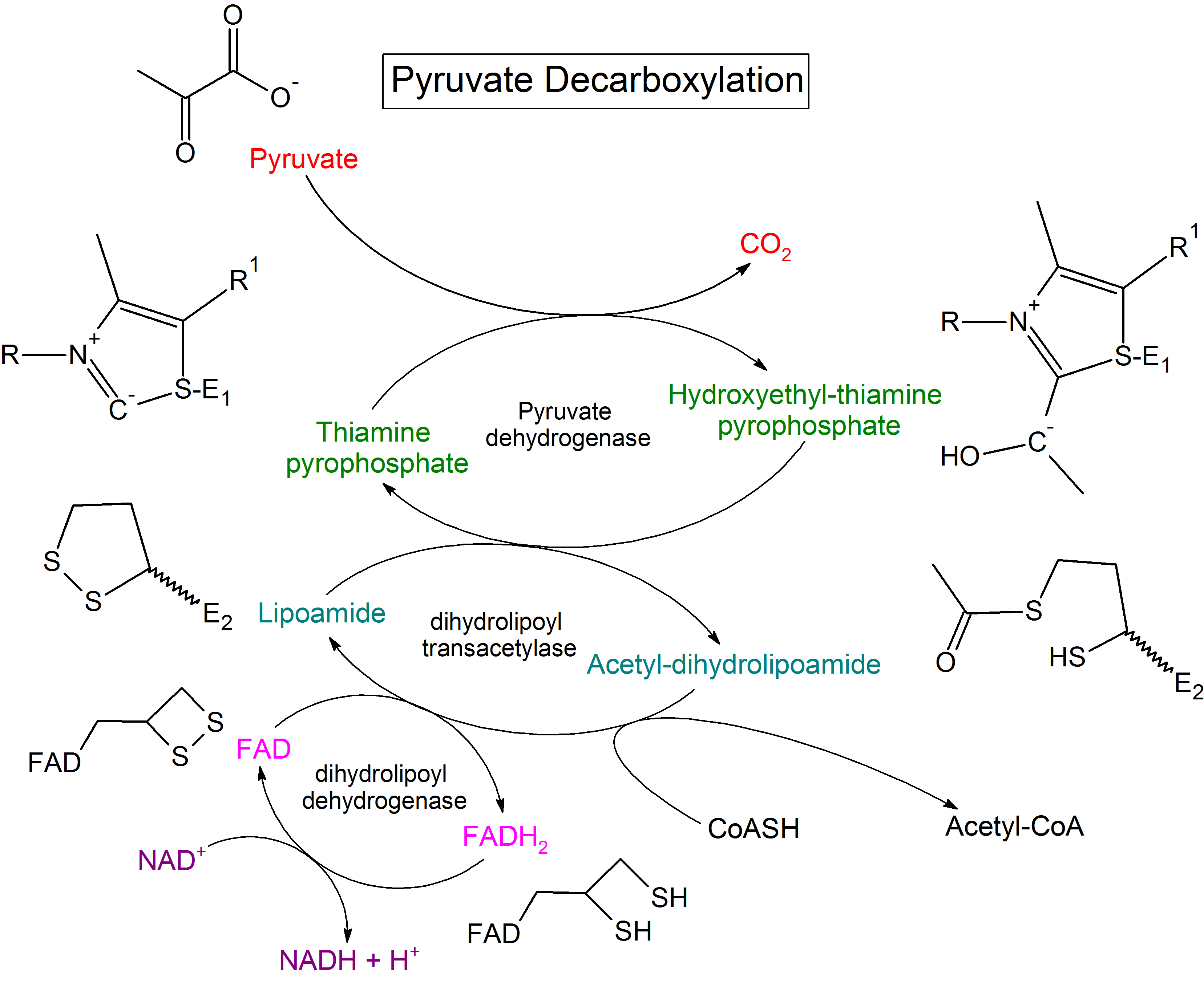 A map showing the sequential steps of pyruvate decarboxylation